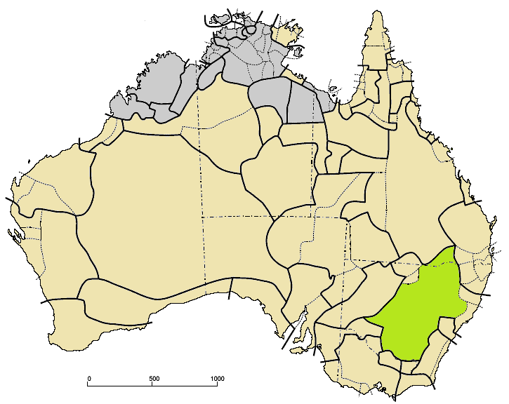 Wiradhuric languages (green) among other Pama–Nyungan (tan)